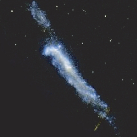 NGC 4656 (upper left NGC 4657)